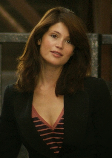 Actress Gemma Arterton in 2010.